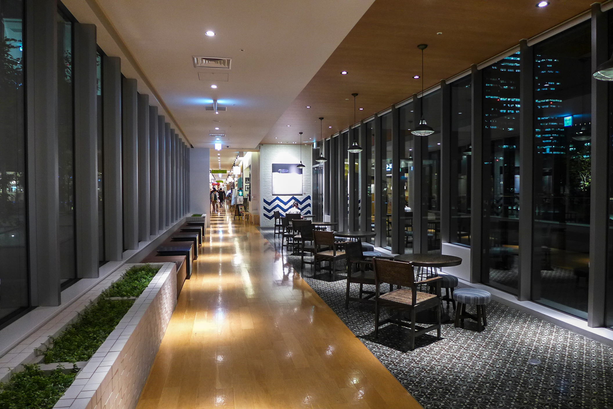 MARK IS minatomirai Level 4 seating area